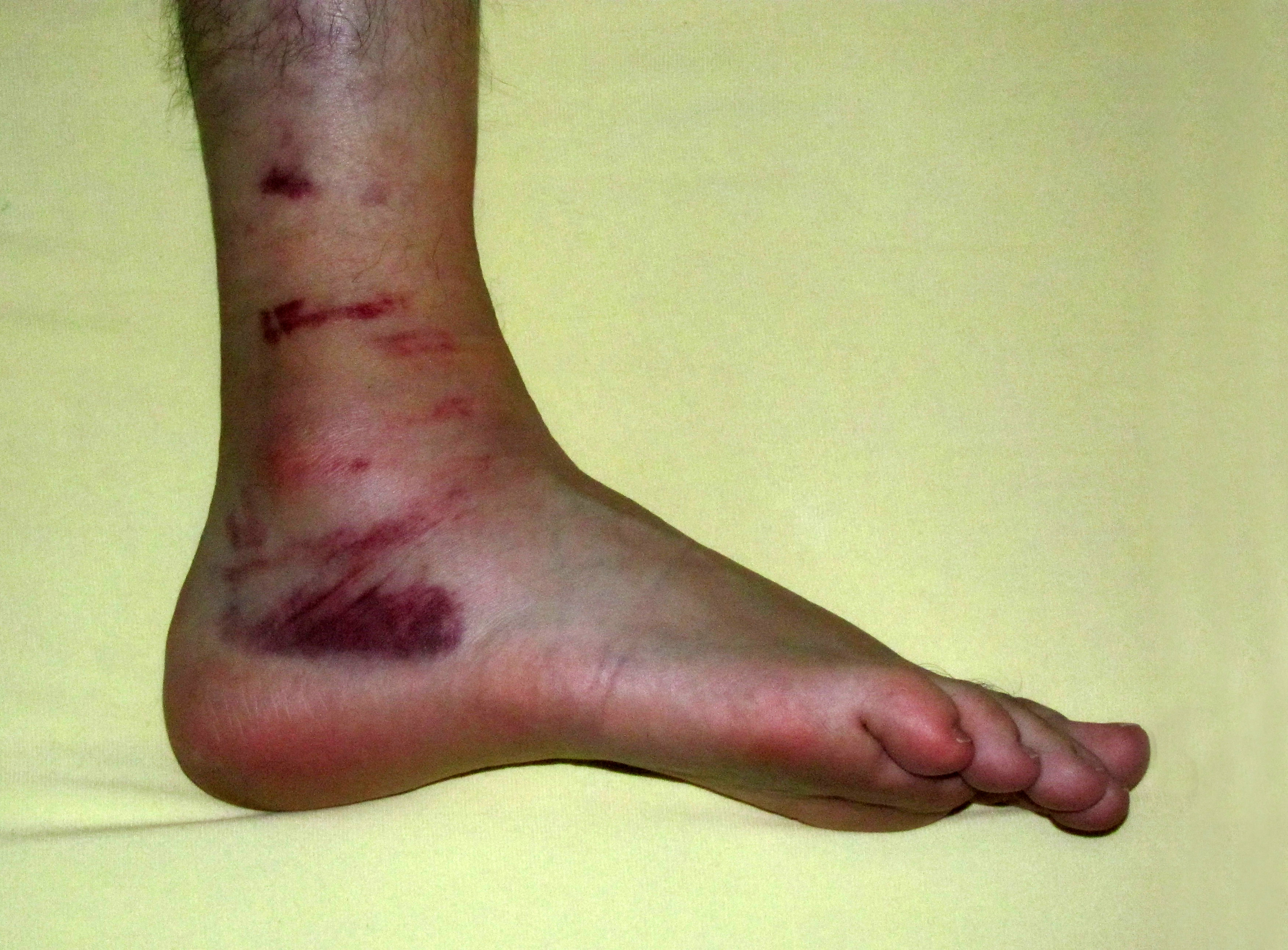 Sprained ankle